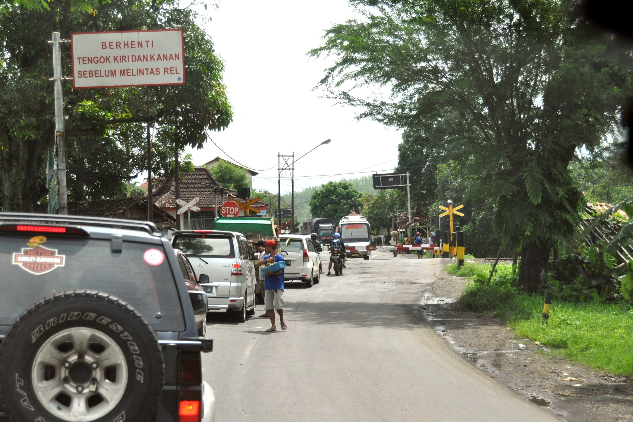 Level crossing near Prupuk train station, Banyumas, Central Java, Indonesia.